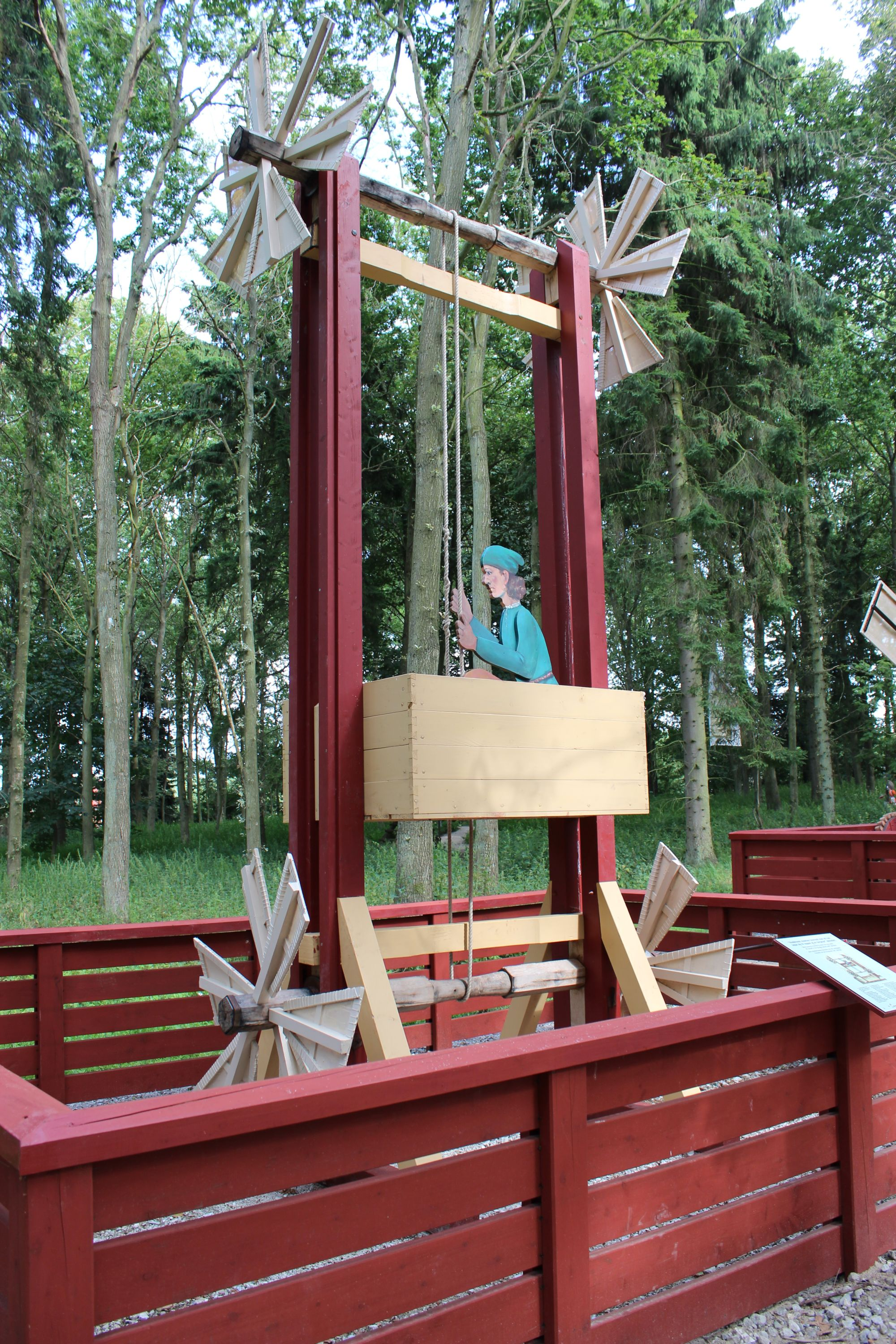 Wind powered elevator at Middelaldercentret (Middle Ages Centret) in Denmark. Recreated from Hans Talhoffer's Ms.Thott.290.2º